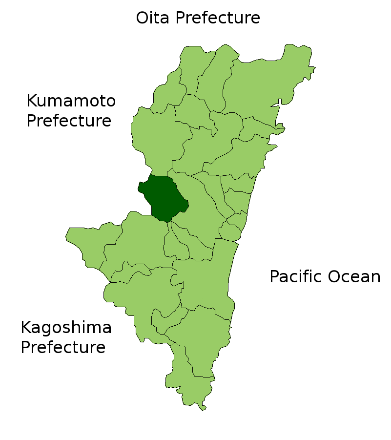 Location Map of Nishimera in Miyazaki Prefecture, Japan